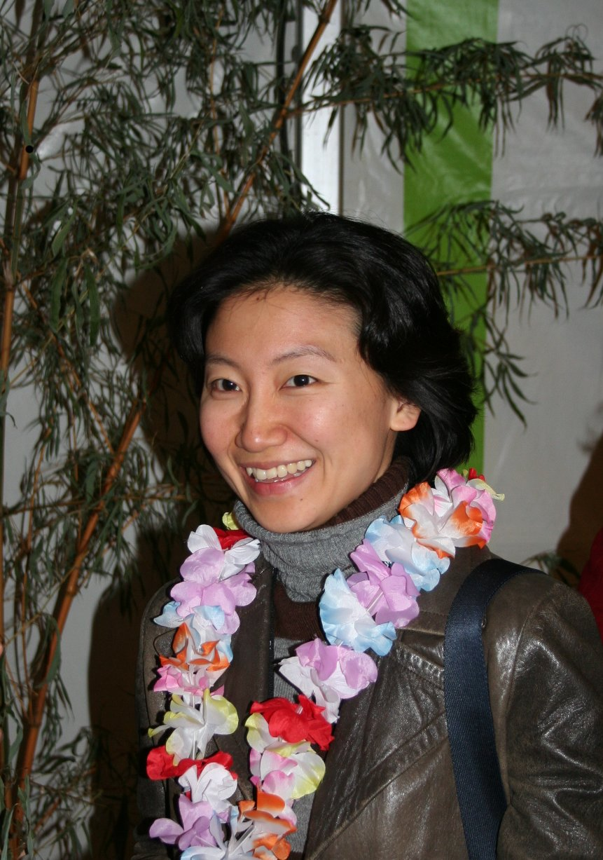 Cho Eun-hee young cinema director from Korea (international asian movies festival in Vesoul)